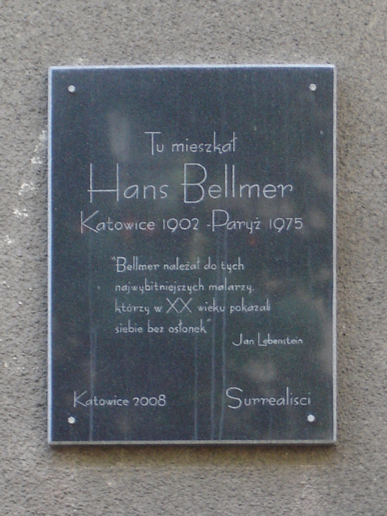 Memory plaque from 2008 on former house of Hans Bellmer, Kościuszki 47 st., Katowice, Poland.